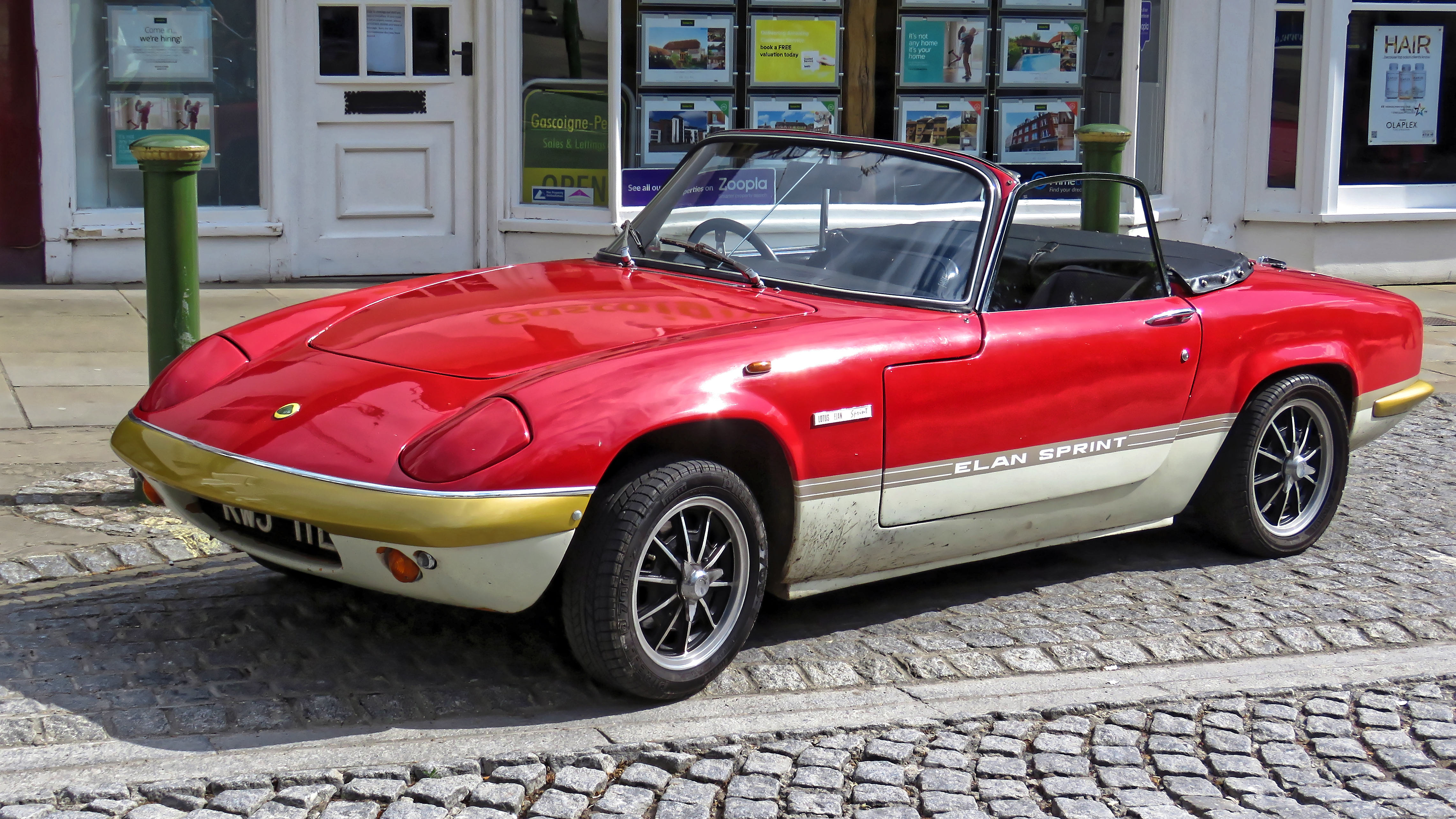 1972 Lotus Elan Sprint 1558cc roadster convertible at Horsham English Festival 2018, at the Carfax in Horsham, West Sussex, England.Camera: Canon PowerShot SX60 HSSoftware: File lens-corrected, optimized, perhaps cropped, with DxO PhotoLab, and likely further optimized with Adobe Photoshop CS2.